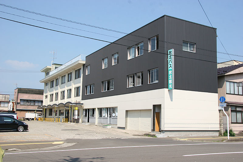 Shuhoku Bus's head office (Shuhoku Bus Terminal) in Odate, Akita, Japan